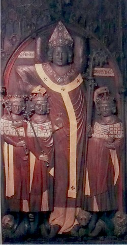 Peter of Aspelt